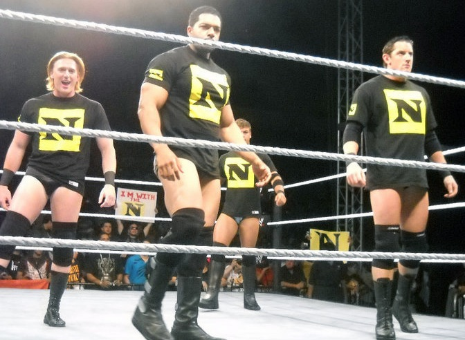 The Nexus (from left to right): Heath Slater, David Otunga, Justin Gabriel, and Wade Barrett.